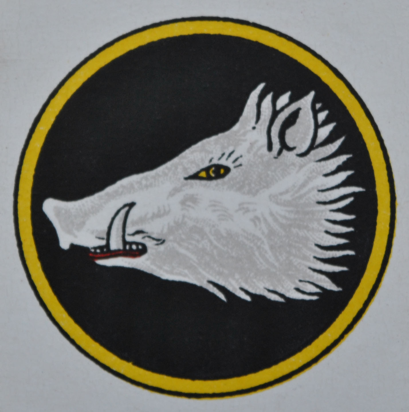 Formation sign of the British Fourth Army in the First World War